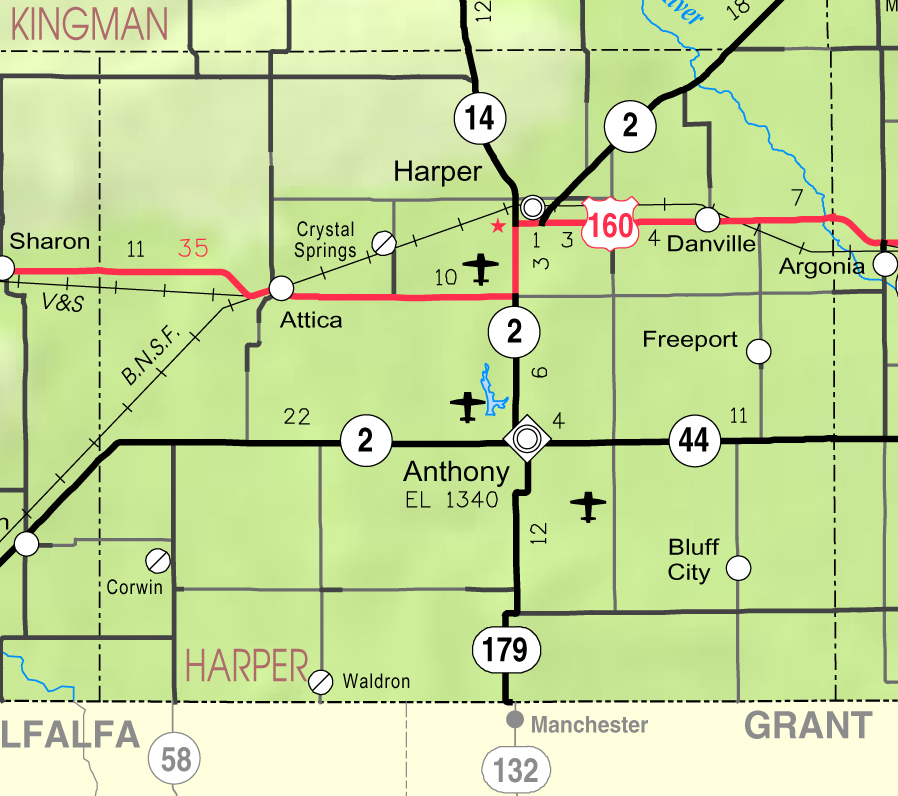 This map of Harper County, Kansas, USA, is copied at a resolution of 300 pixels/inch from the original PDF file.